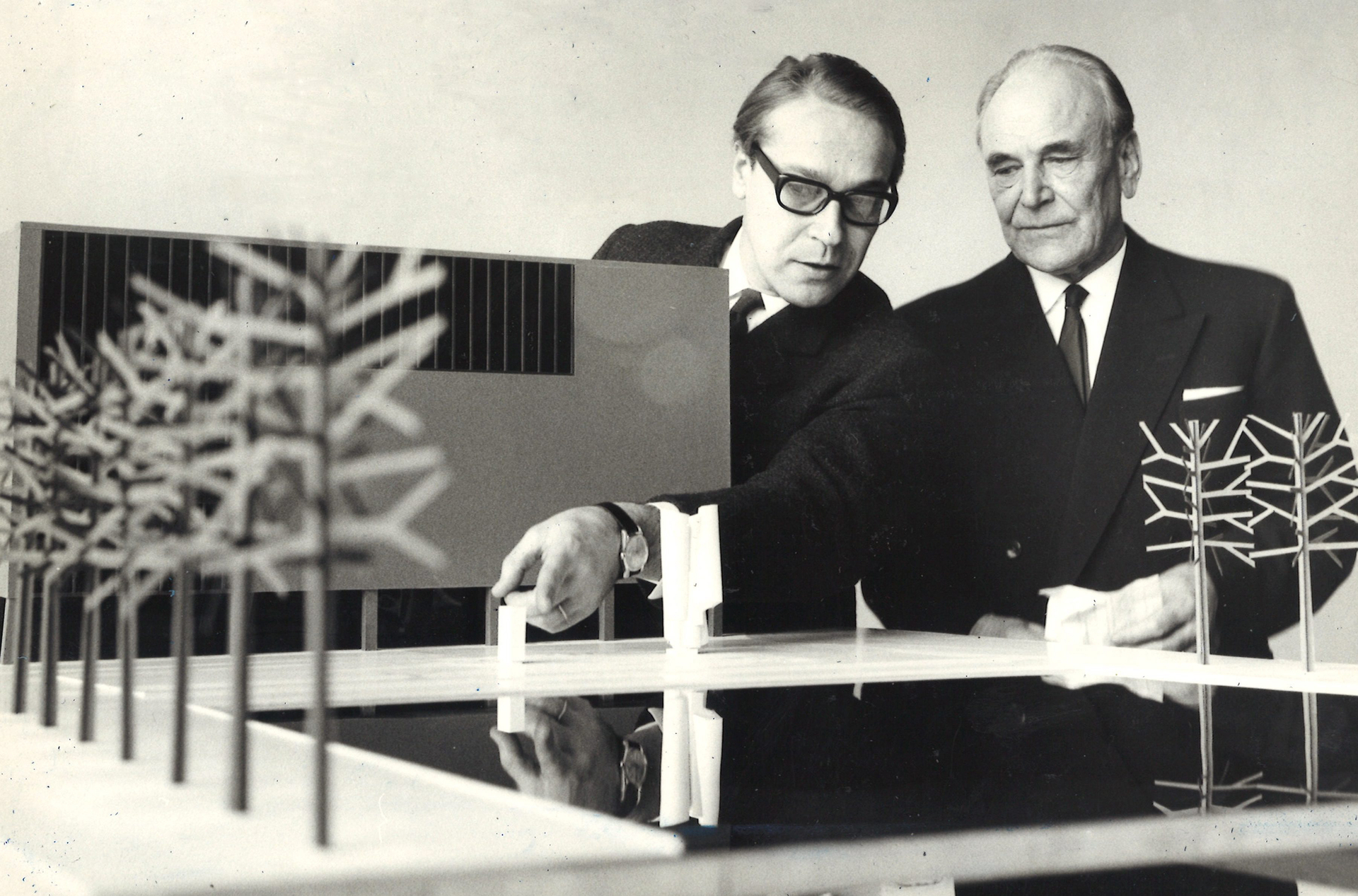 Photograph of the Finnish sculptor Raimo Utriainen (1927–1994) and professor Toivo Ilmari Wuorenrinne (1892–1984), looking at the statue to be raised in honour of Ida Aalberg.